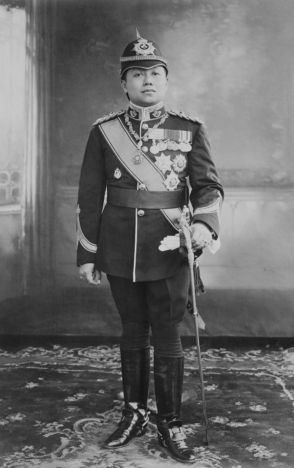 Photograph of King Vajiravudh of Thailand wearing the uniform of a General in the Durham Light Infantry with many medals and insignia on jacket